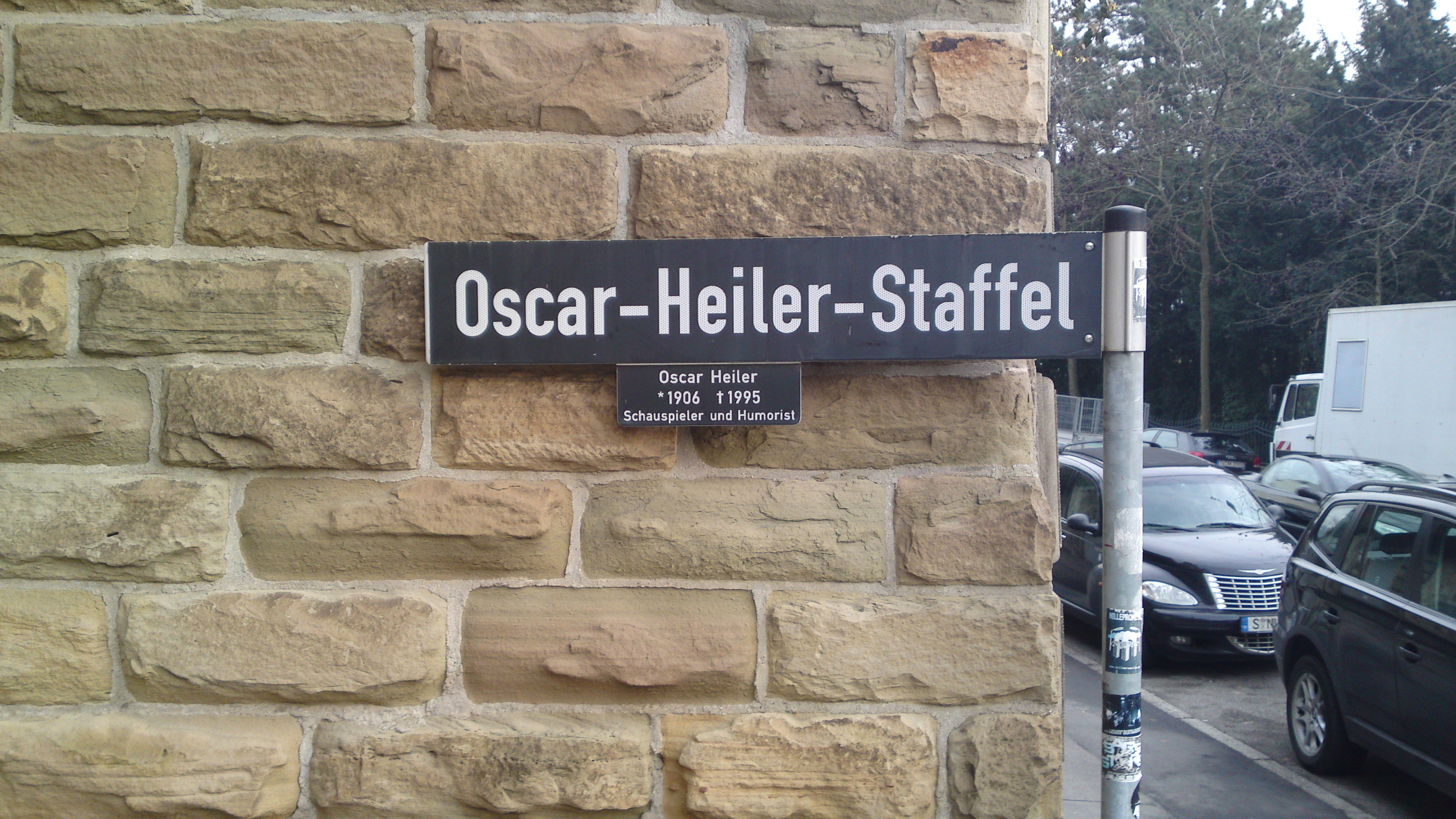 Oscar-Heiler-Staffel in Stuttgart.